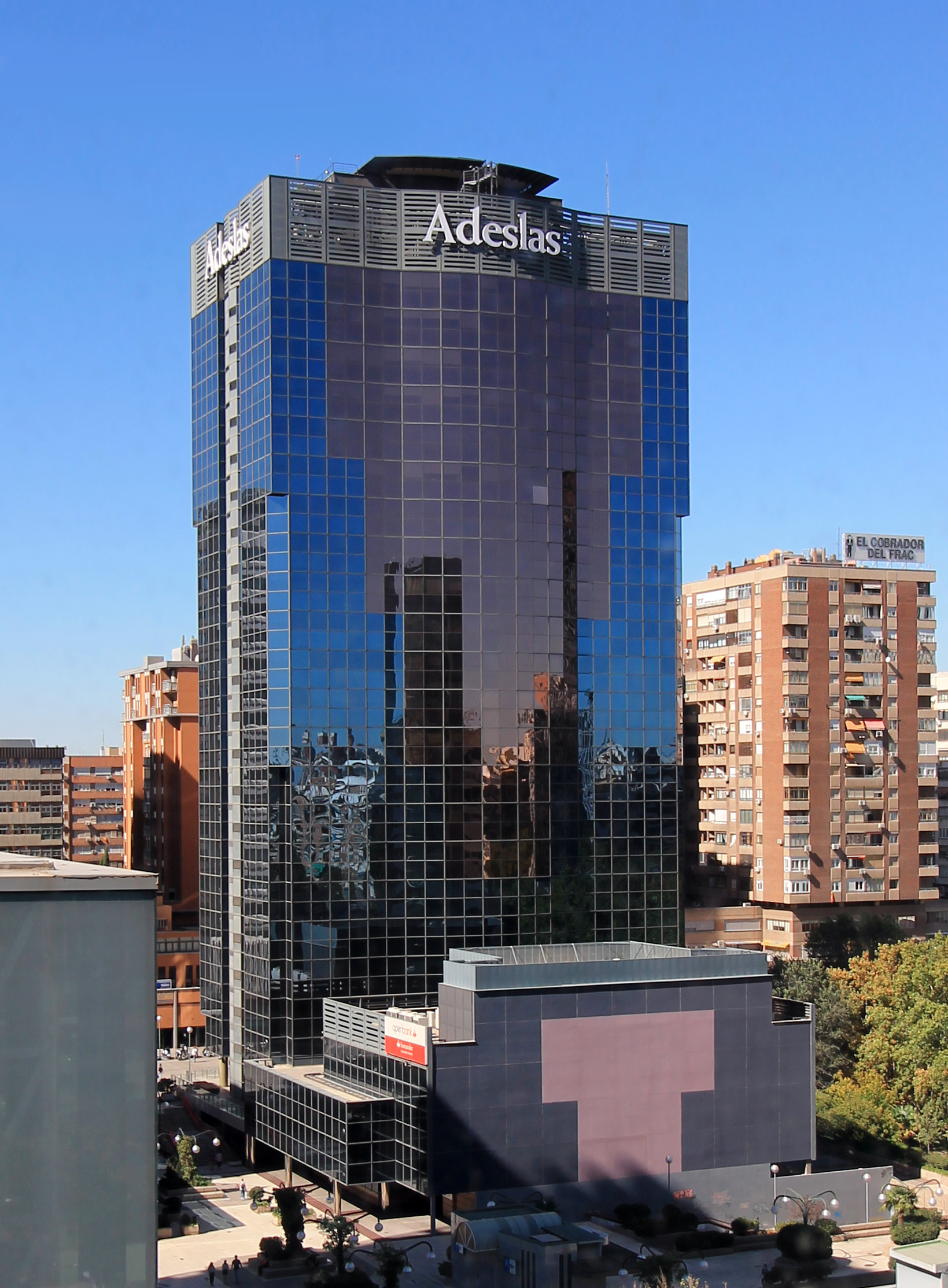 Façade of Alfredo Mahou Building in Madrid (Spain).